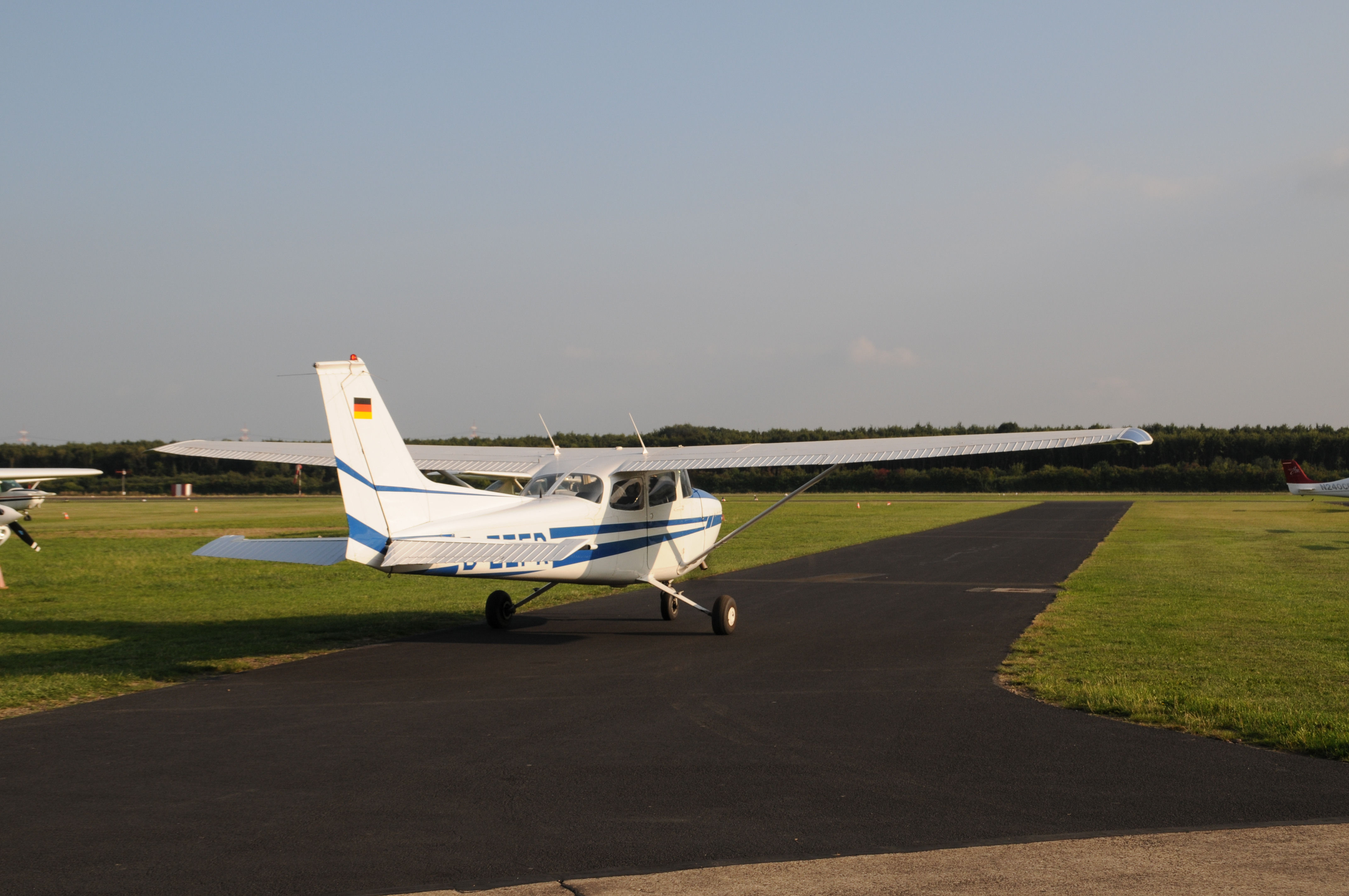 Airport Egelsbach, Hesse, Germany, aerial photograph